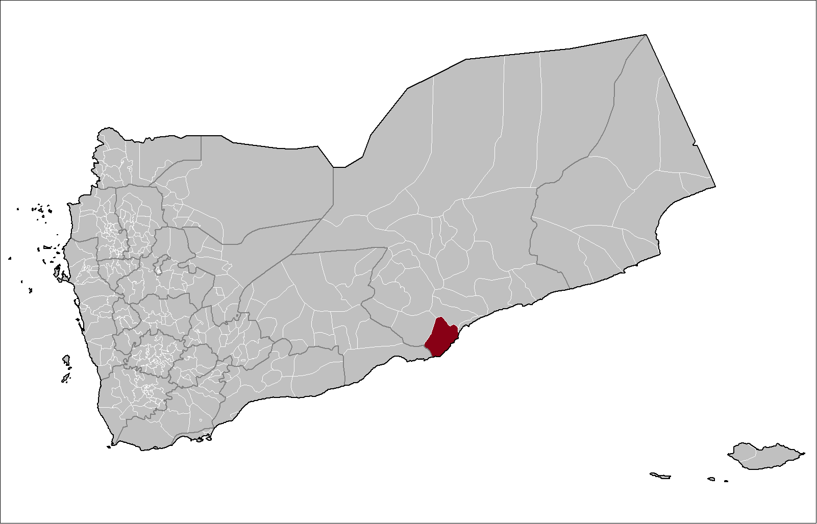 District locator of Brom Mayfa District in Hadhramaut Governorate, Yemen.